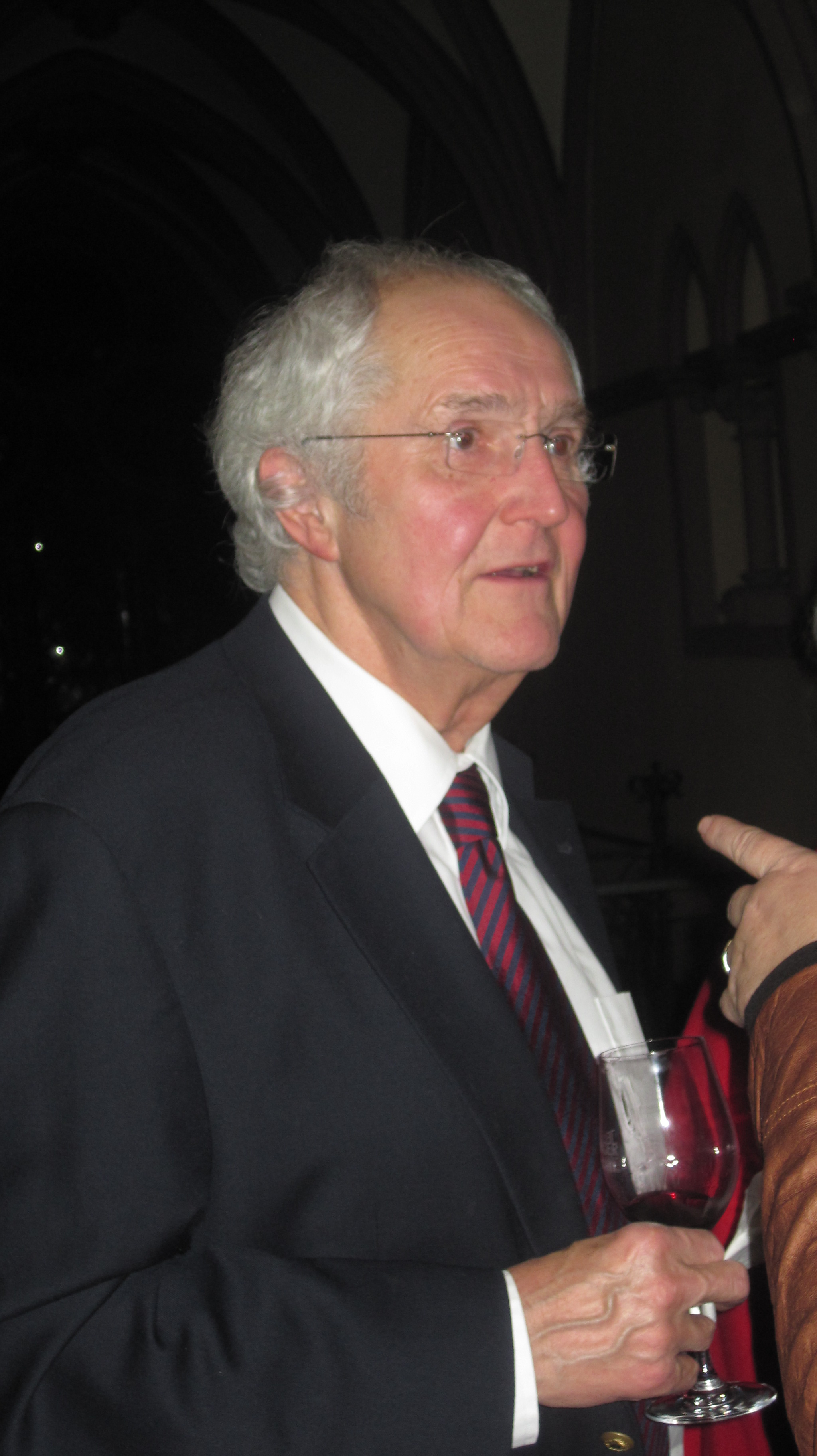 German philosopher Peter Janich, University of Marburg emeritus.